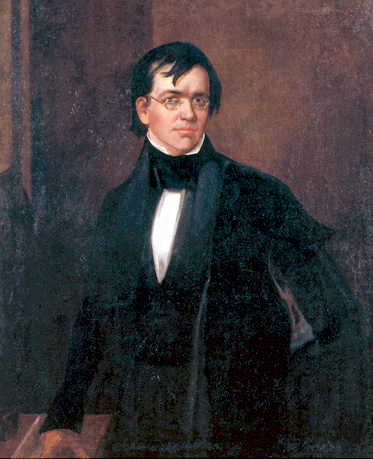 John Turner Morehead (1797 – 1854), the 12th Governor of the U.S. state of Kentucky